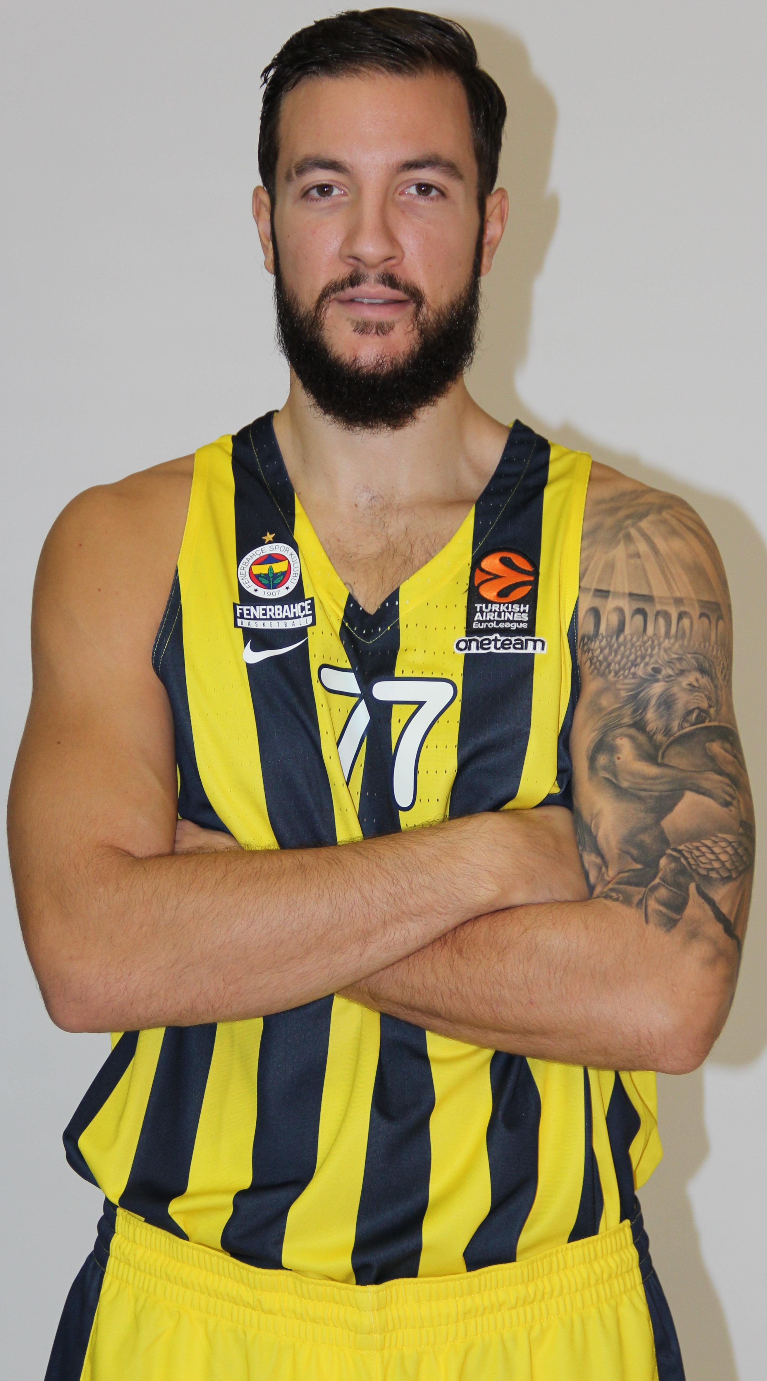 Joffrey Lauvergne Fenerbahçe Basketball Media Day 20180925